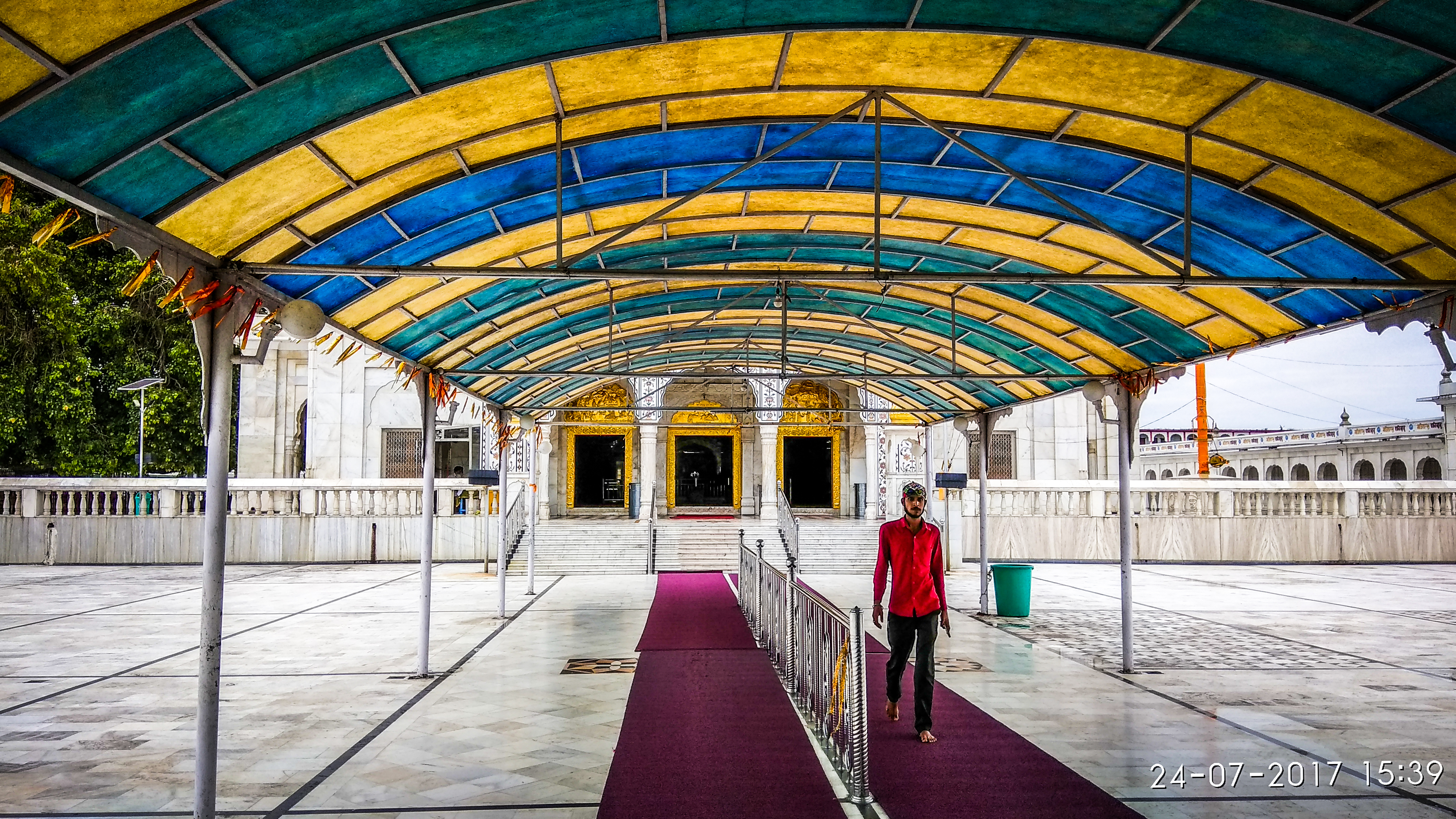 Entrance to the holy shrine at Nanakmatta in Uttarakhand